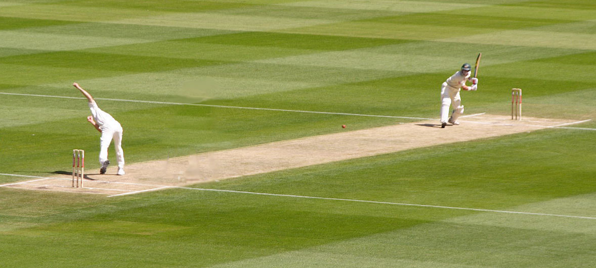 Bowler Shaun Pollock bowls to batsman Michael Hussey. Edited version of [1]. Original image by ~Prescott on Flickr.